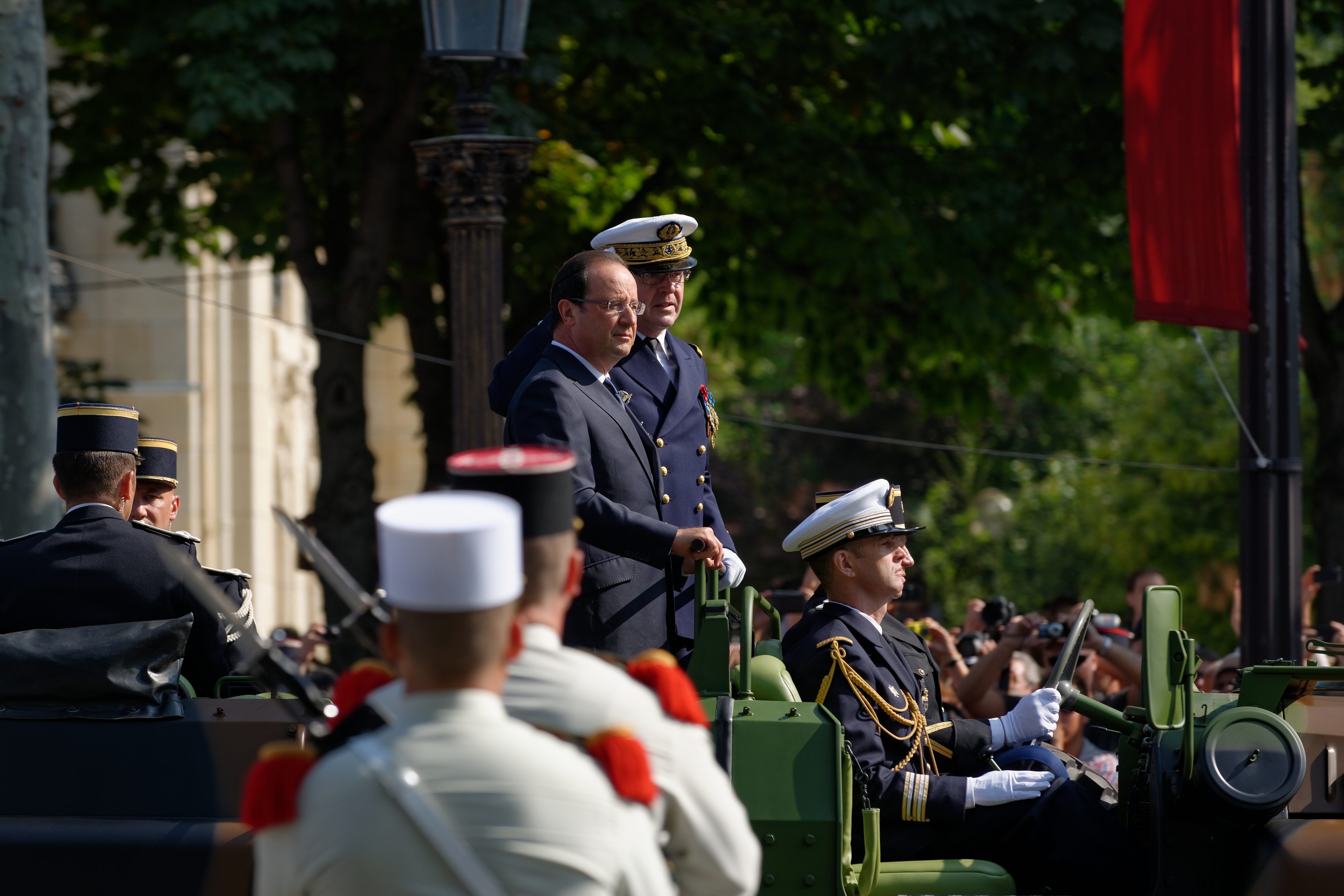 President François Hollande reviews troops with Admiral Édouard Guillaud, Chief of the Defence Staff, during the Bastille Day 2013 military parade on the Champs-Élysées in Paris.